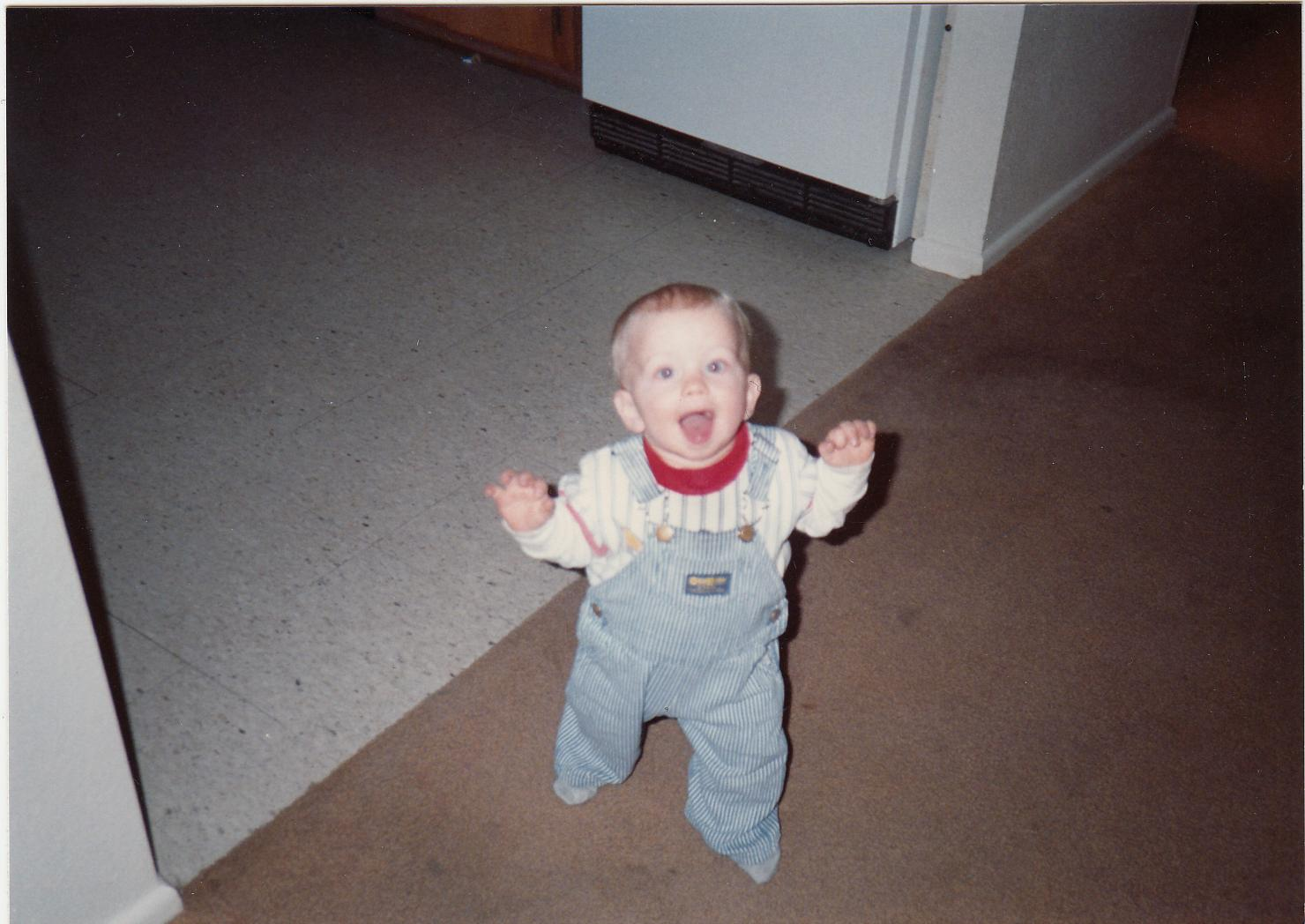 Chelsea Manning as a child (known as "Bradley Manning" at time photo was taken). Credit: Bradley Manning Support Network / Made available for unrestricted use by Manning family.